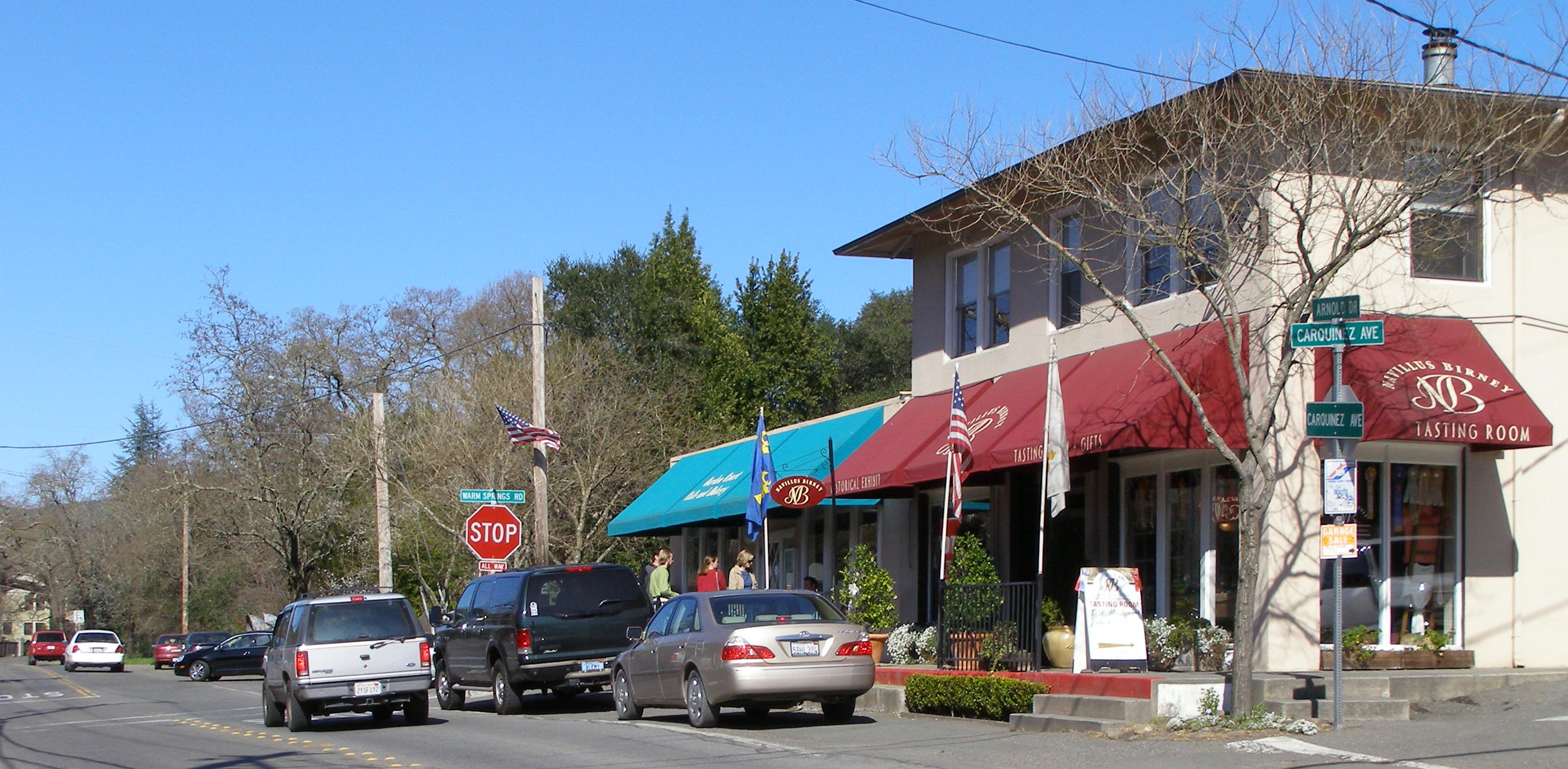 Glen Ellen, California.